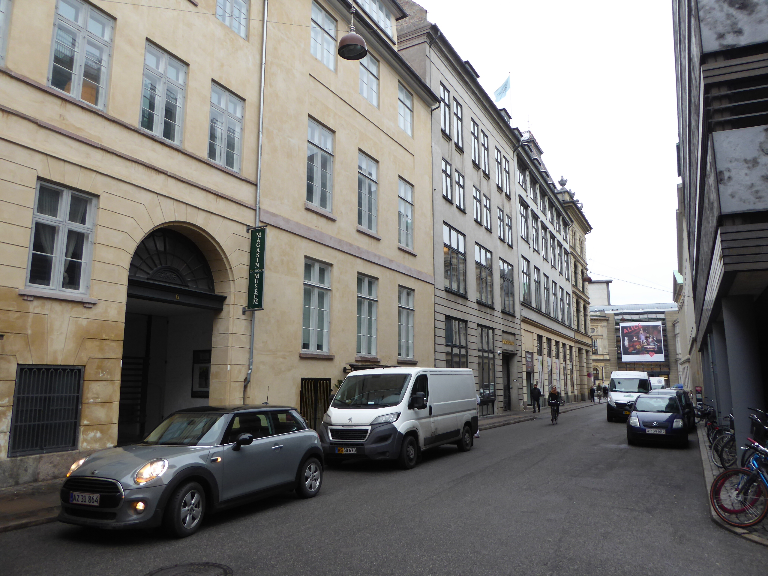 The street Vingårdstræde in Indre By in Copenhagen. The buildings at the left are parts of the department store Magasin du Nord.